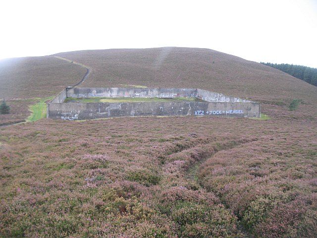 Reservoir, Kirnie Law A wet day up at the tank. This was an early pumped storage reservoir which powered a mill in Walkerburn. It now seems to serve a useful purpose in isolating graffiti idiots away from inhabited areas.